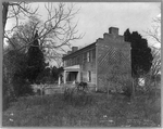 Old Courthouse of Norfolk County, Virginia